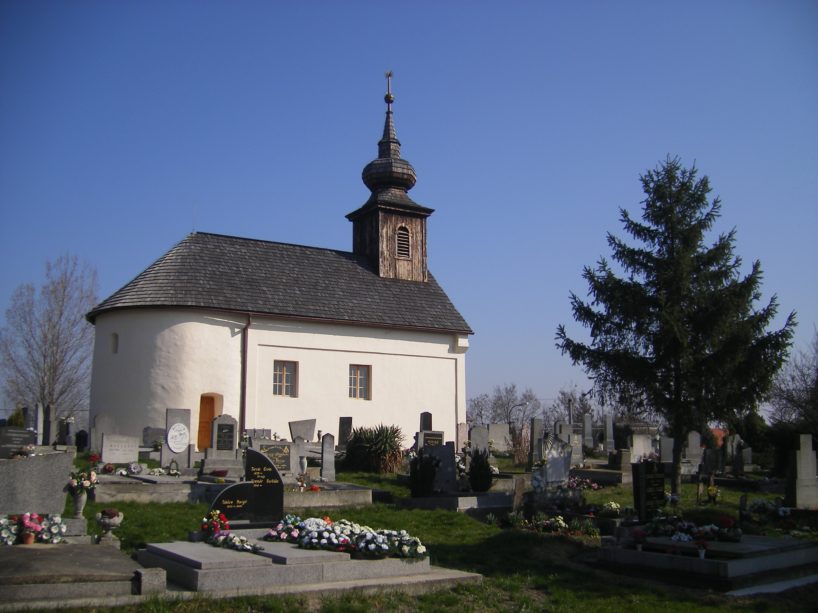 Klížska Nemá, Reformated Church (1794)